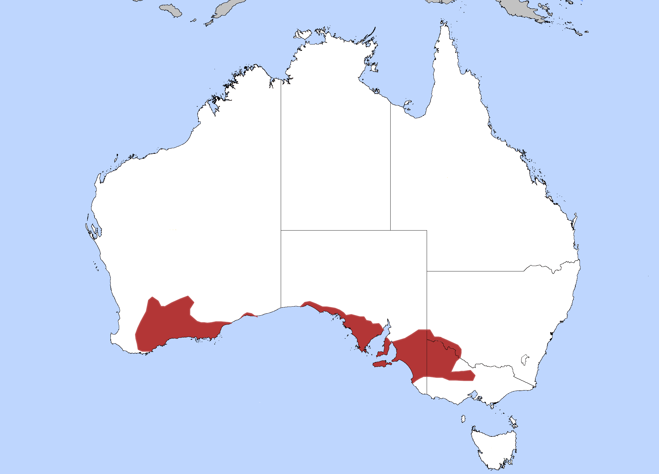 The Distribution of the Purple-gaped Honeyeater